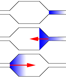 2stroke engine exaust chamber figure. Drawed by Konoa, 2006/8/13.